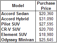 Part of a series of images to illustrate an article on the Analytic Hierarchy Process